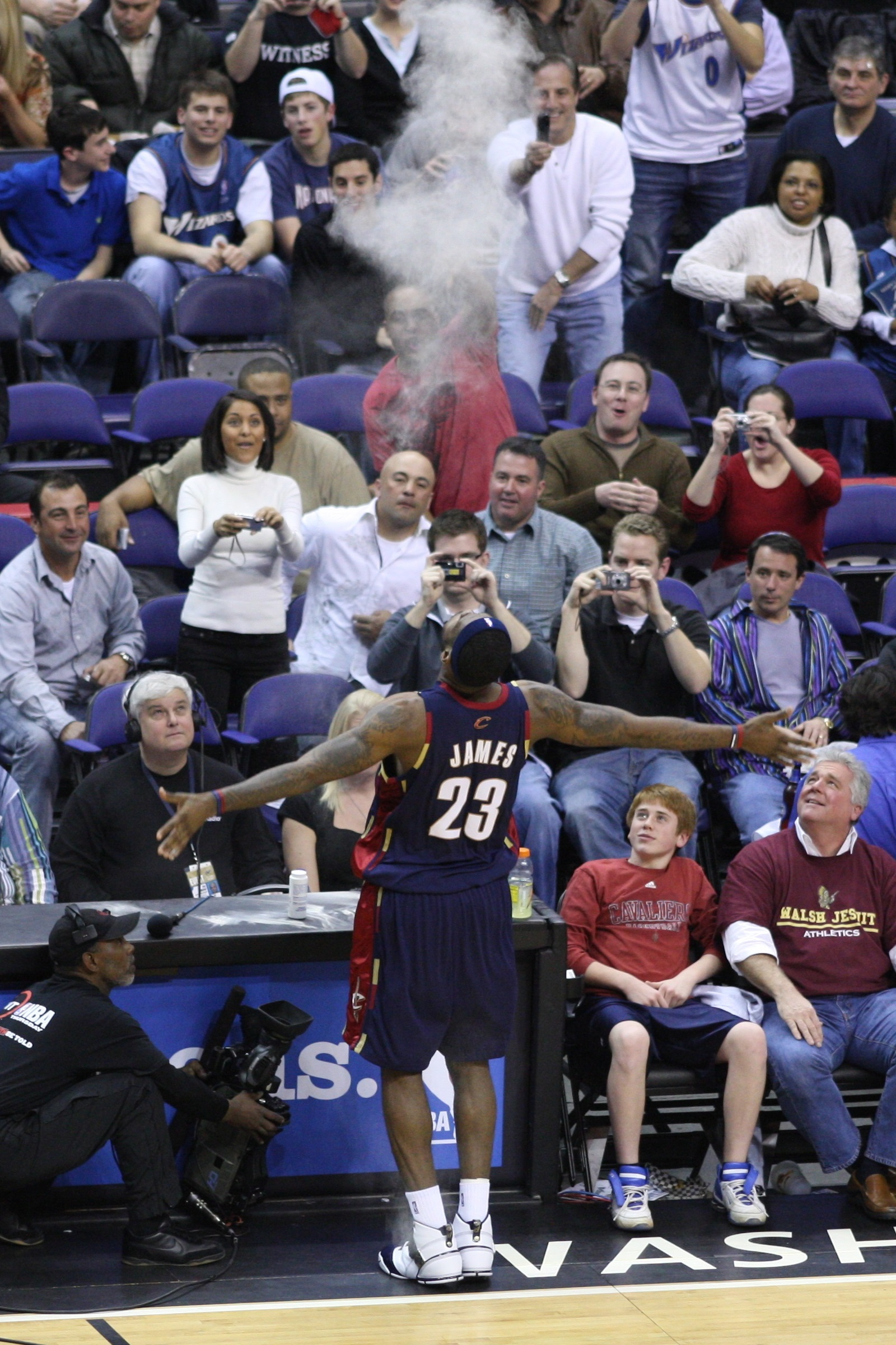 LeBron James' pregame ritual of tossing powder into the air